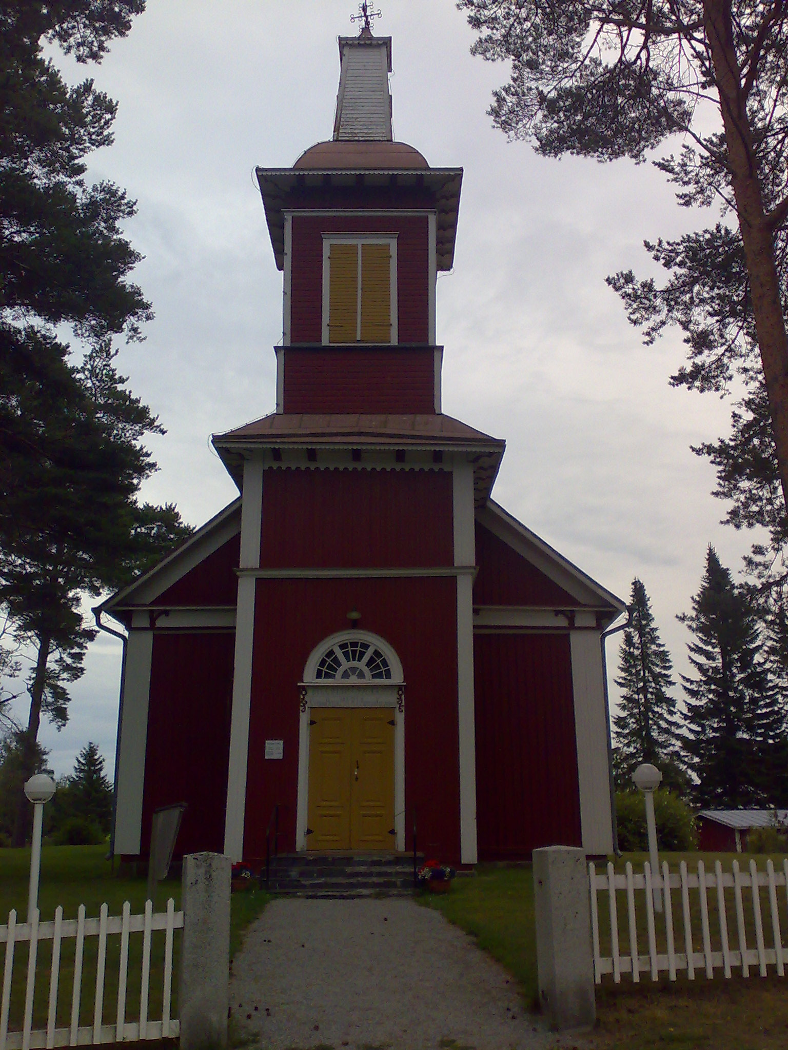 Björköby church, Björkö, Korsholm commun, Finland